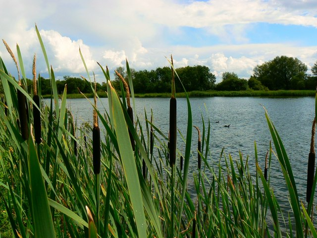 Bullrushes, coots and water, near South Cerney Close-up of Typha latifolia with Fulica atra in the H2O. All in a reclaimed gravel pit now part of the Cotswold Water Park.